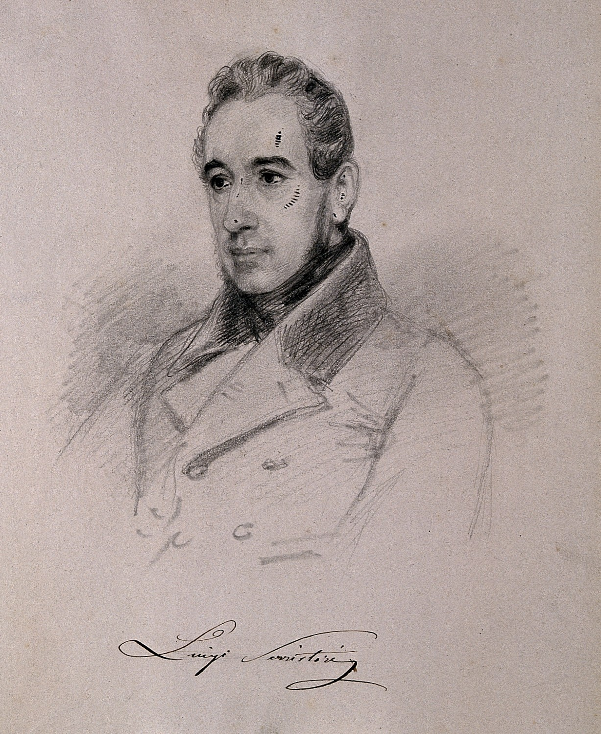 Luigi, Count Serristori. Pencil drawing by C. E. Liverati, 1841. Iconographic Collections Keywords: Carlo Ernesto Liverati; portrait drawings; Luigi Serristori